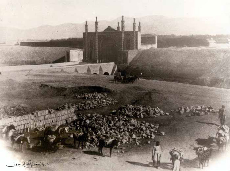 Old Tehran Khani Abaad Gate viewed from outside